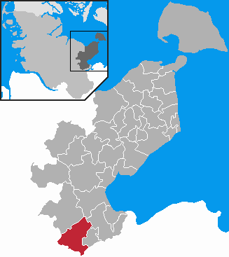 This map shows the area of the Gemeinde (municipality) Stockelsdorf in the Kreis (district) Ostholstein, Schleswig-Holstein, Germany.